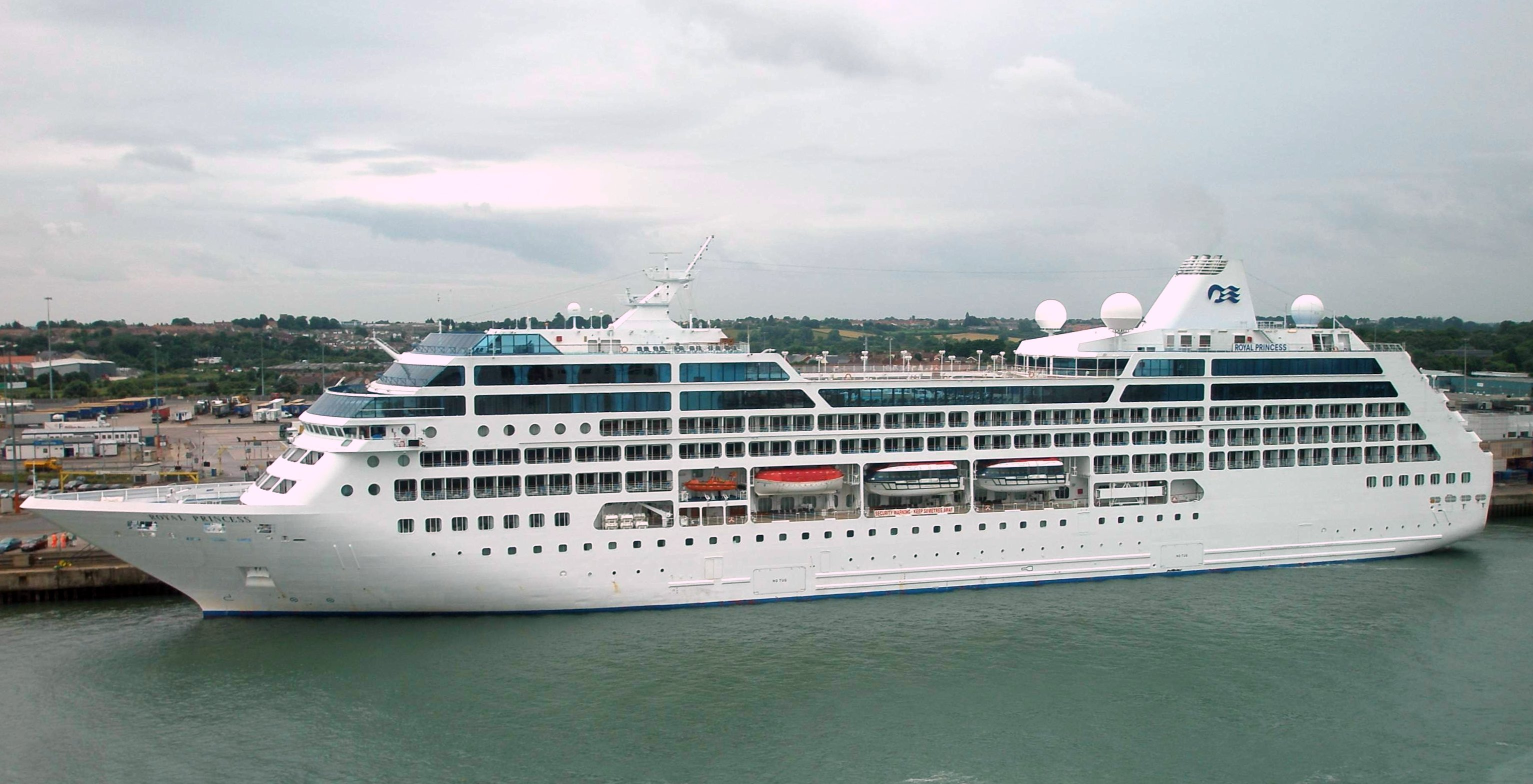 The cruise ship Royal Princess alongside at Harwich International Port. IMO Number: 9210220 MMSI Number: 310530000 Callsign: ZCDV2 Length: 180 m Beam: 24 m